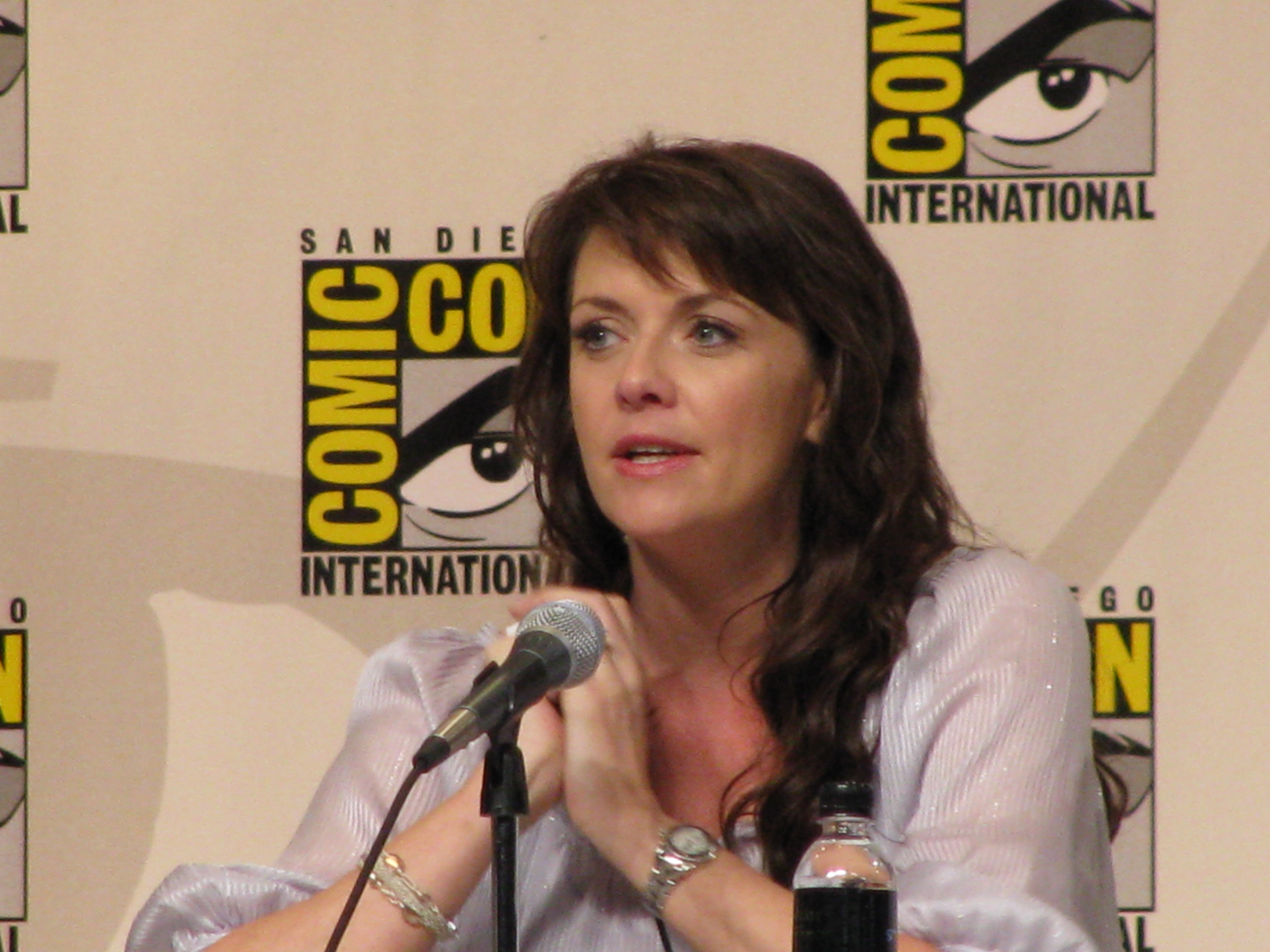 Amanda Tapping at Comic Con 2008